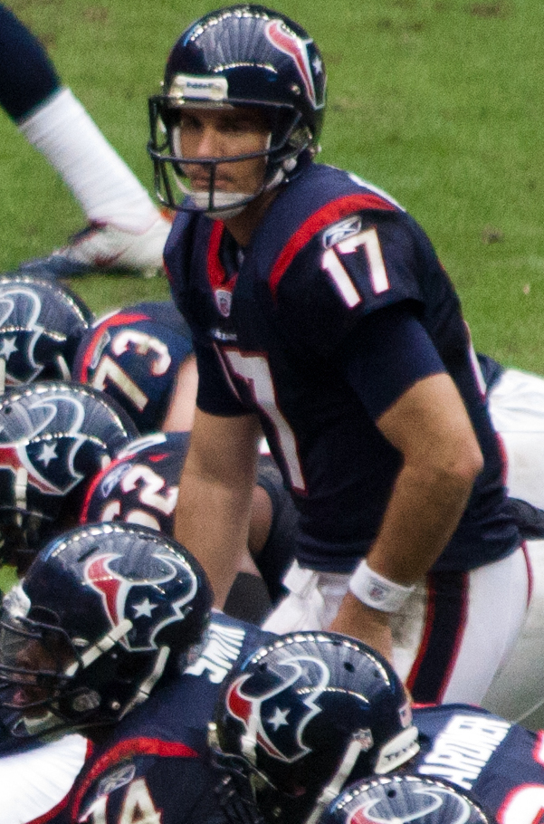 Houston Texans vs Tennessee Titans January 1, 2012